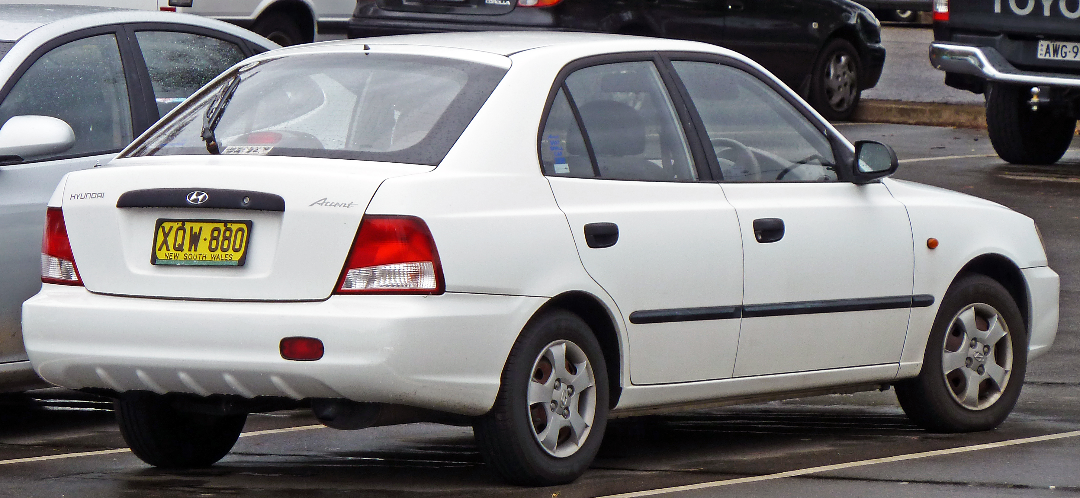 2001 Hyundai Accent (LC) GL 5-door hatchback. Photographed in Miranda, New South Wales, Australia.